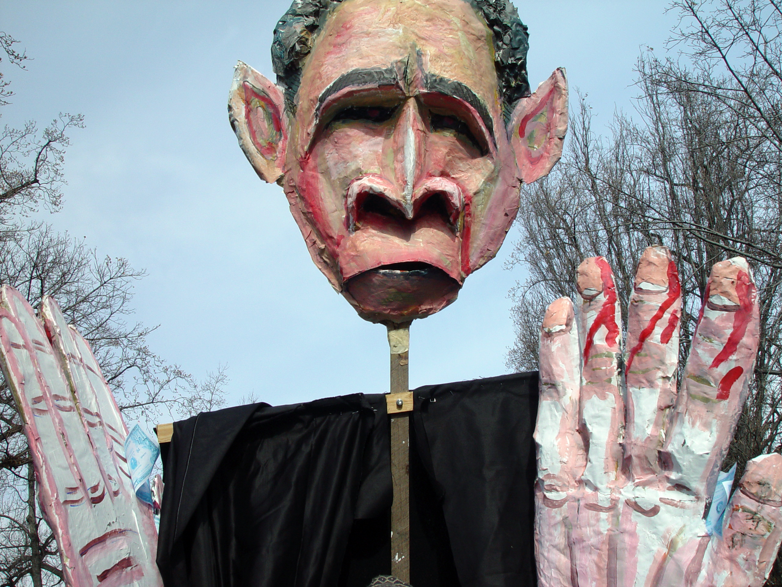 Bush protest puppet at Bush's 2nd inauguration, Washington DC.